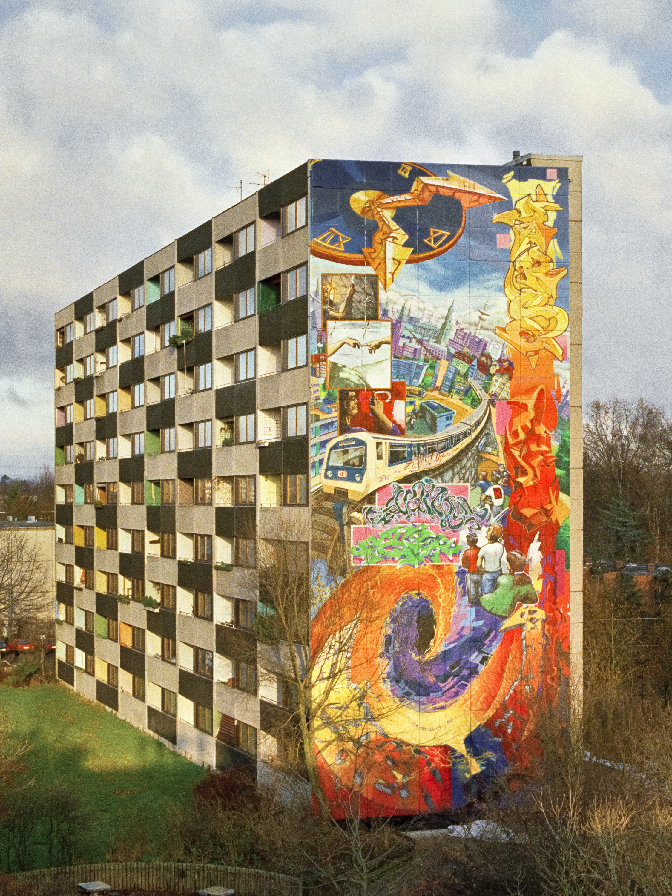 DAIM, Loomit, Darco, Hesh, Vaine, Ohne: Sign of the times. Otto-Schumann-Weg, Hamburg-Lohbrügge (Bergedorf), Germany, 1995 (Entry in the Guinness book of world records as the highest Graffiti in the world in 1996.)